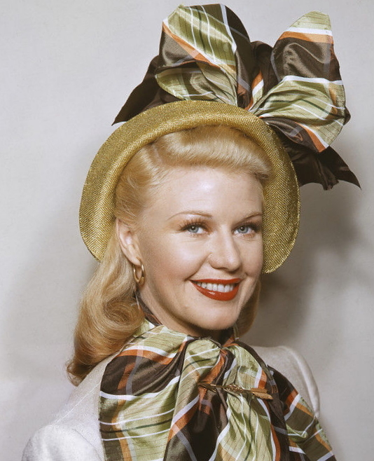 Photo of Ginger Rogers from Screenland-June 1945 issue.